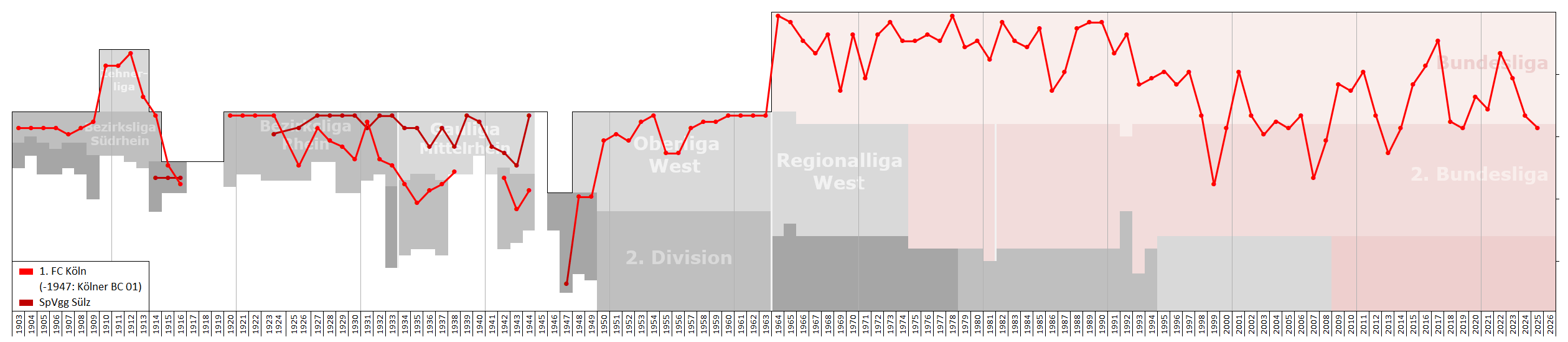 Chart of end-season table positions of 1. FC Köln (Cologne) in the football league system of Germany. Data source: RSSSF, wikipedia, f-archiv.de, fussball.de